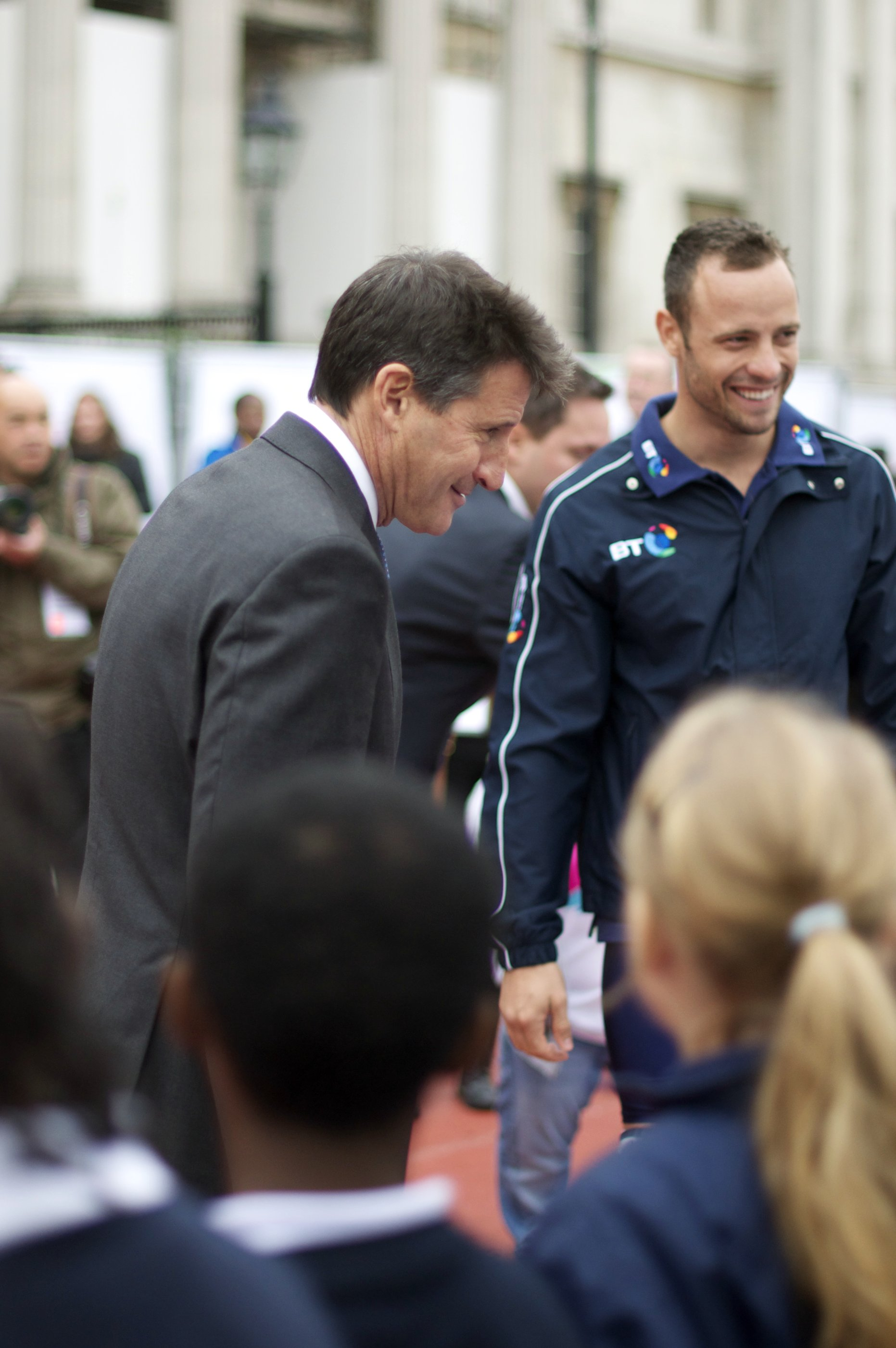 Chairman of the London Organising Committee of the Olympic and Paralympic Games Sebastian Coe and South African Olympic and Paralympic runner Oscar Pistorius at an International Paralympic Day event at Trafalgar Square, London, UK.